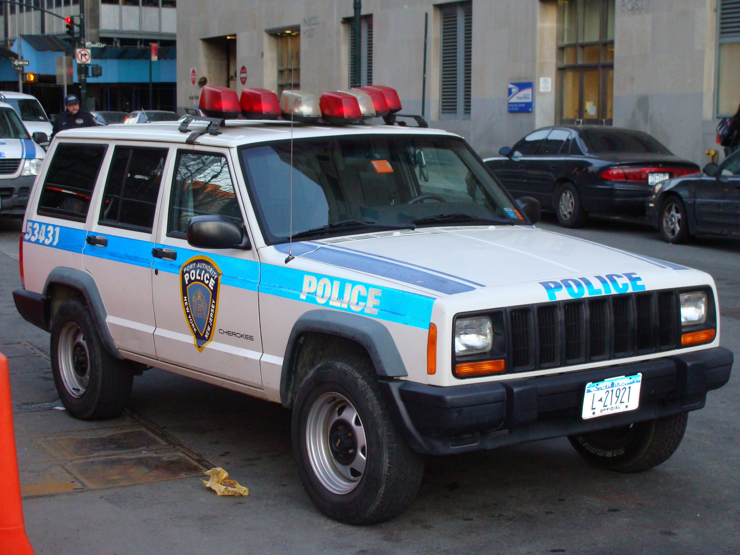 Photograph of a NY/NJ Port Authority Police Jeep Cherokee outside of the World Trade Center, NYC